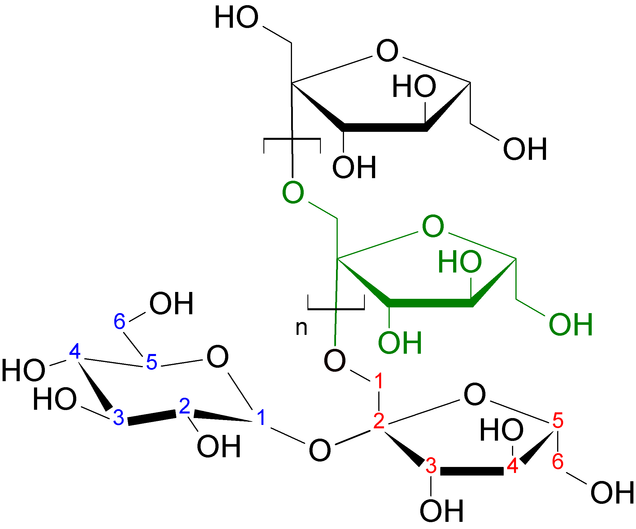 Structural formula of inulin (fructan). Additional features (carbon numbers and repeated fructosyl unit) are highlighted with colours.